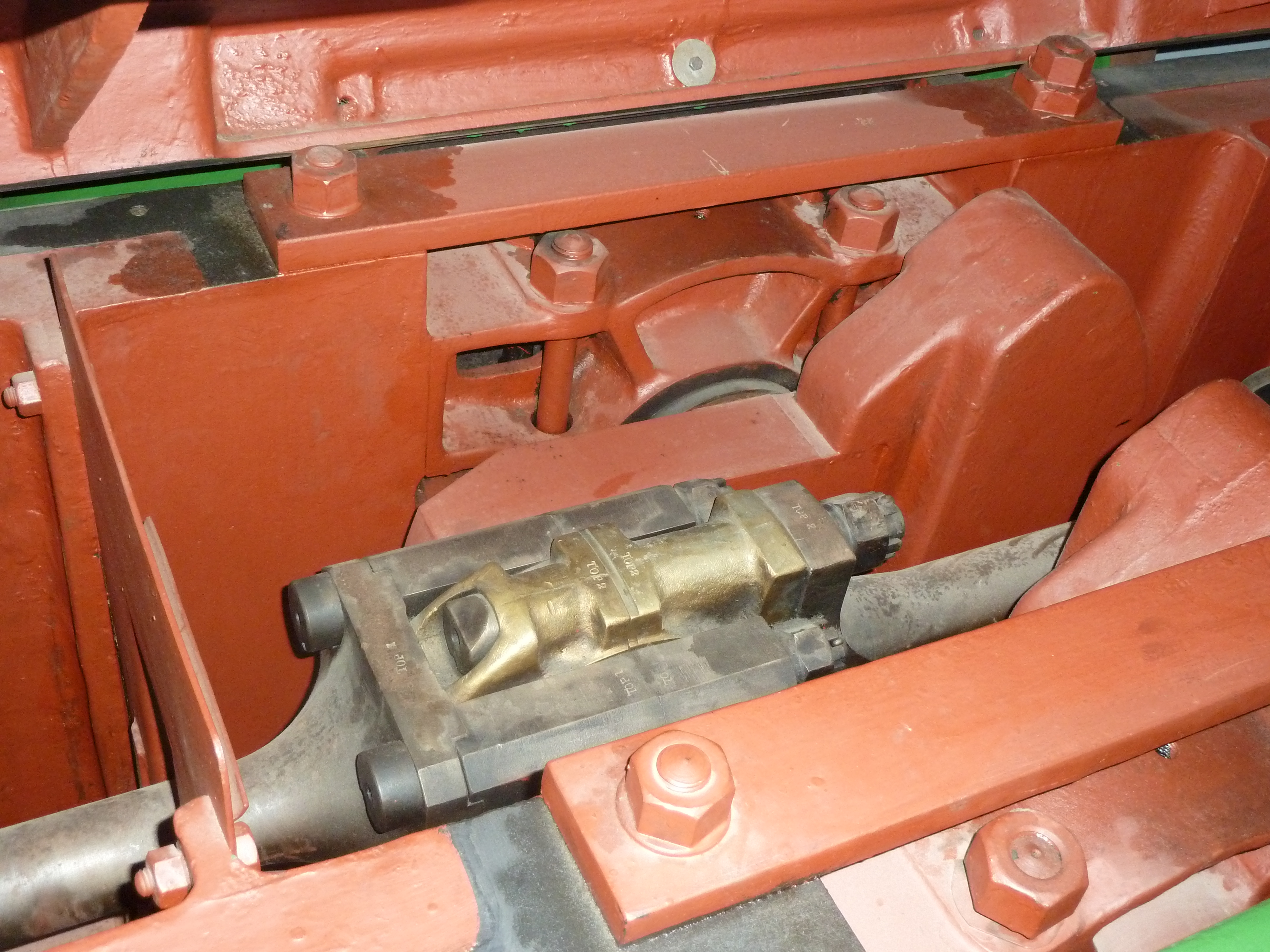 Fork and blade connecting rod in a Brush flat-twin Diesel engine